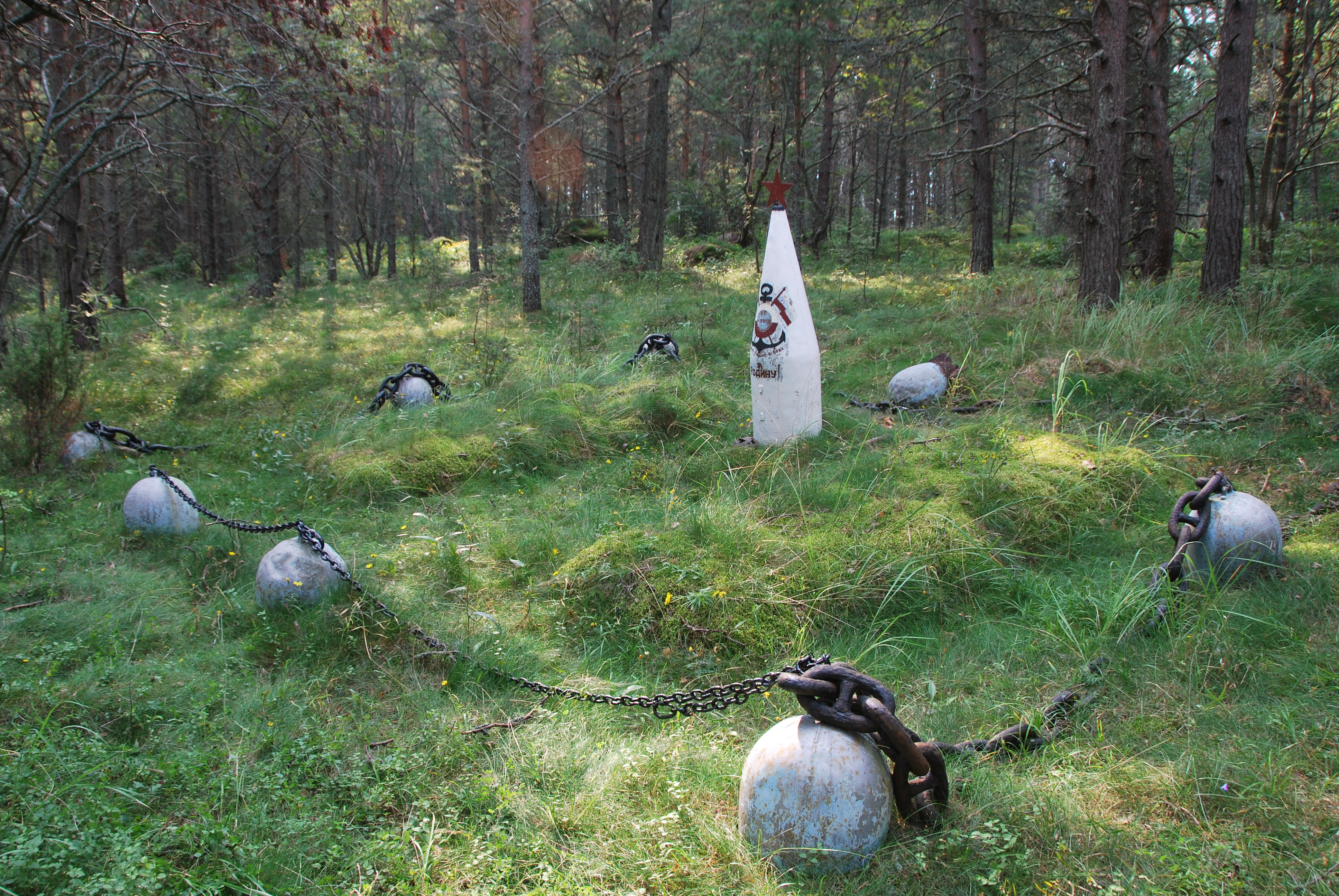 War memorial on Lavansaari